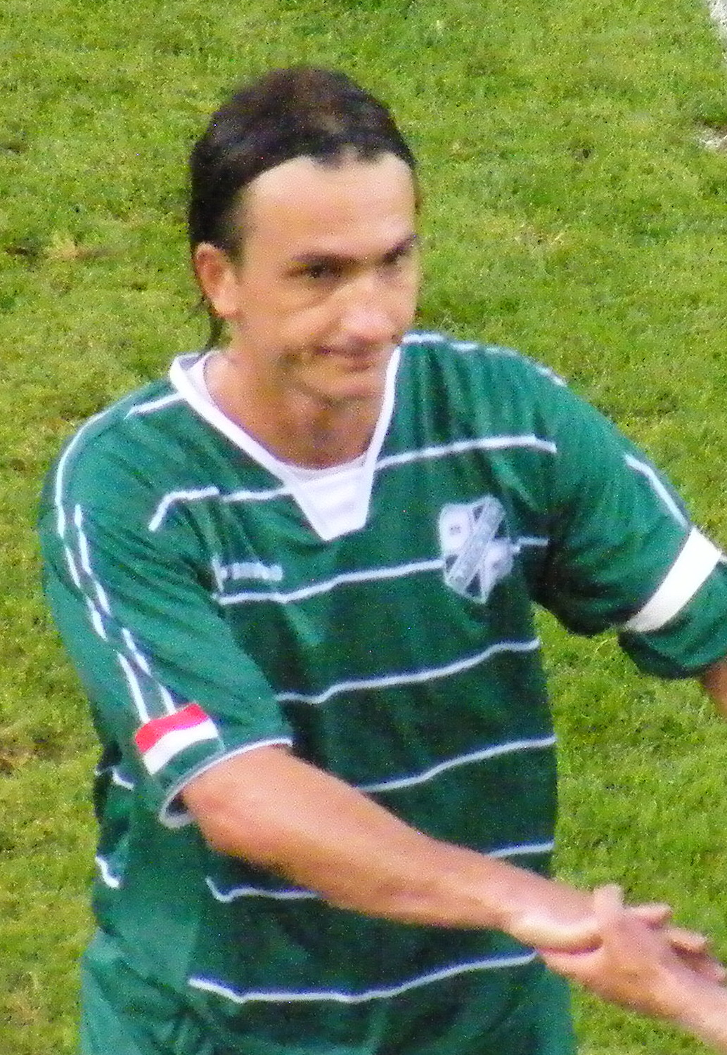 Lóránt Oláh Hungarian football player